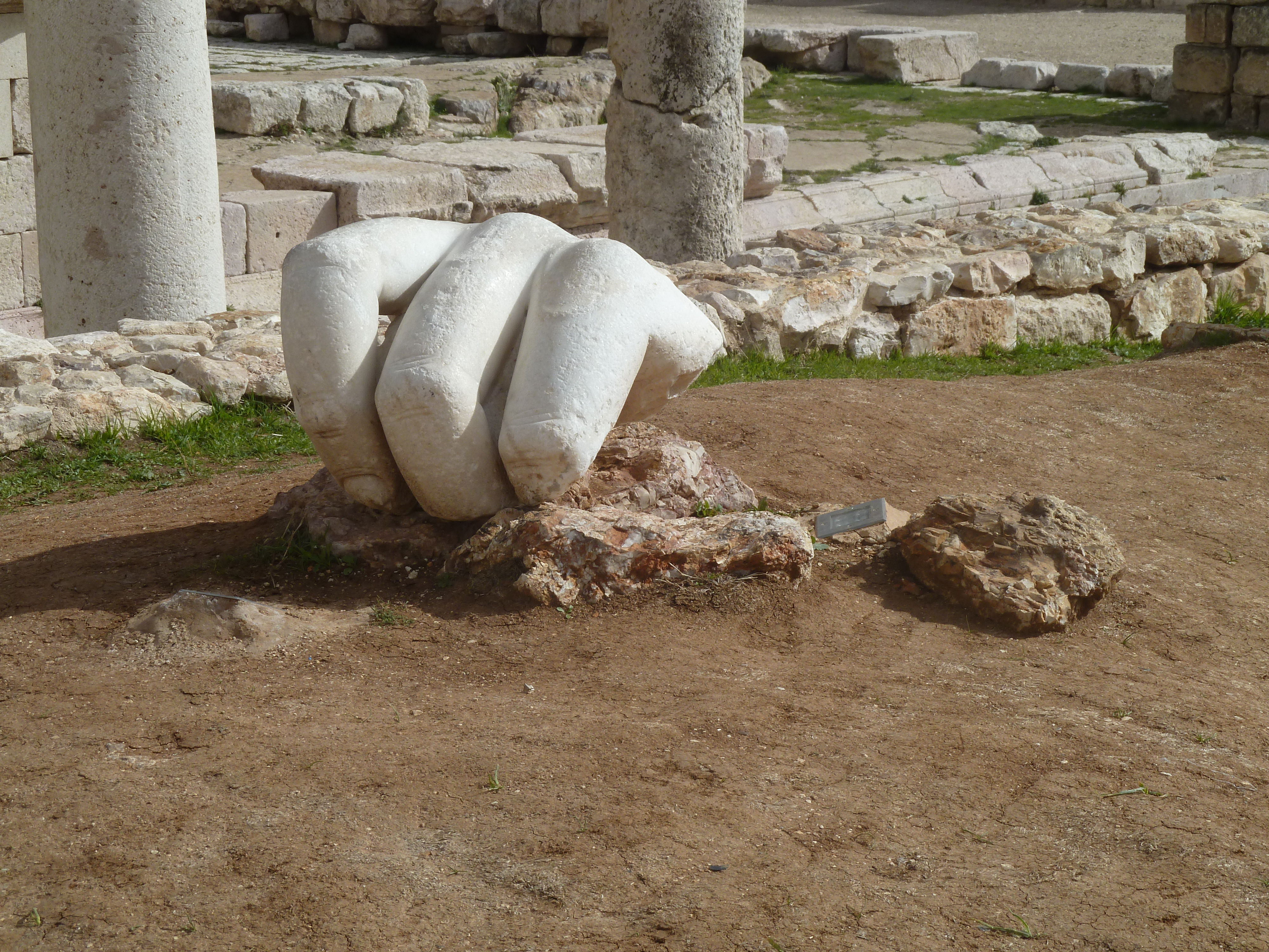 Temple of Hercules, Amman, Jordan